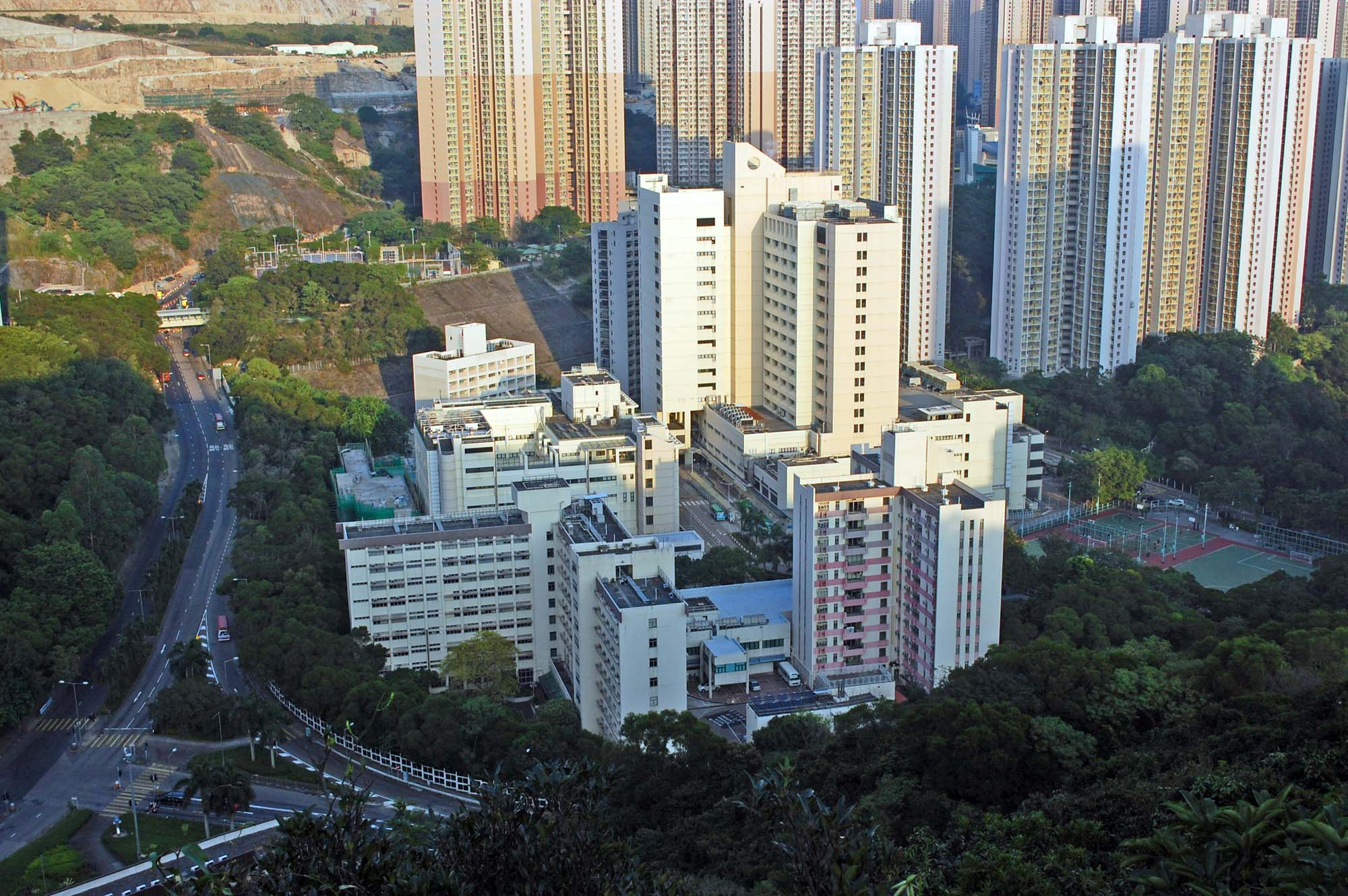 A view of the United Christian Hospital, Kwun Tong, from a nearby hill atop which sits the Kwun Tong High Level Service Reservoir.